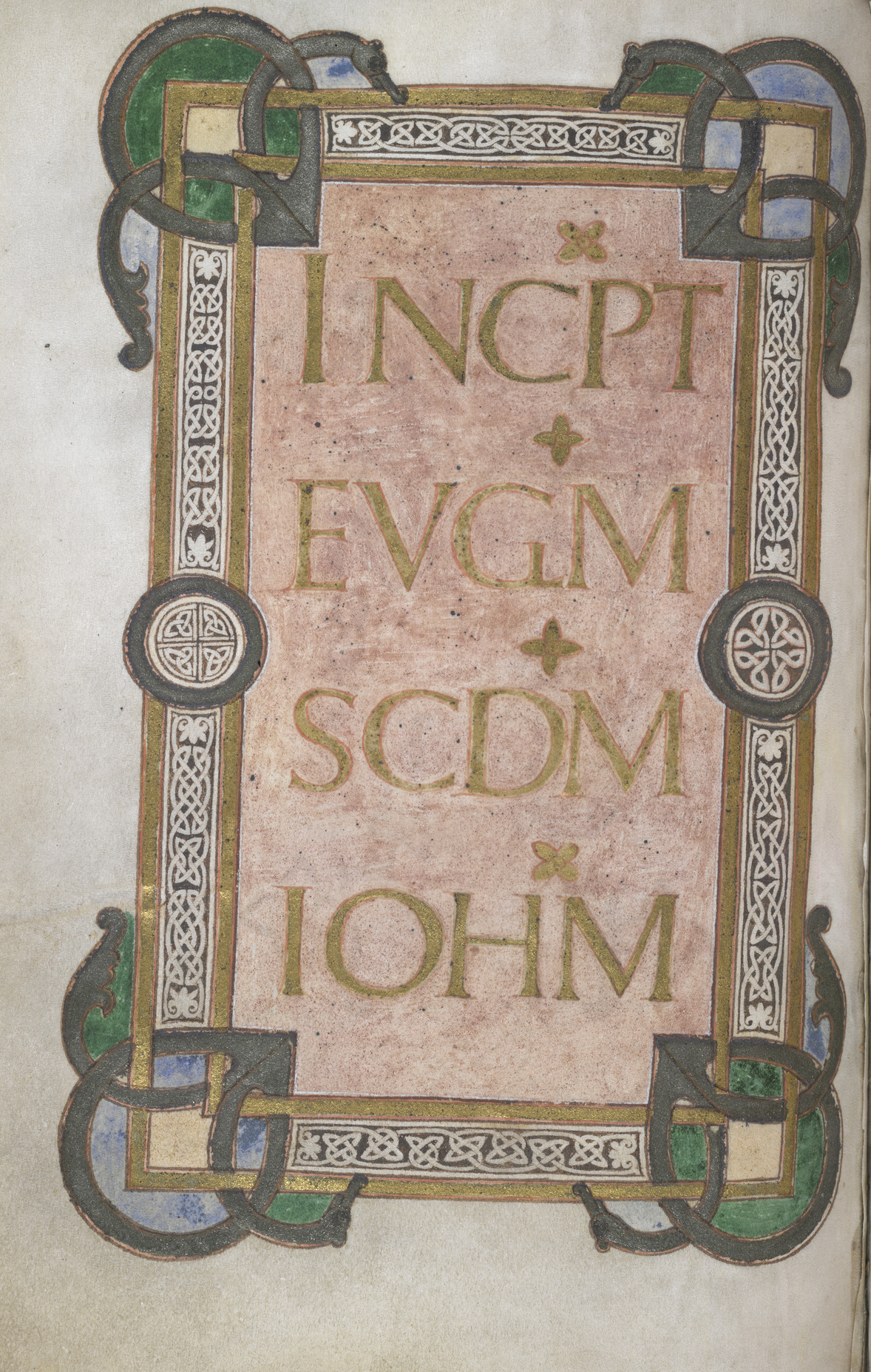 Incipit to St John's Gospel [Whole folio] Incipit to the Gospel of St John. Borders with interlace pattern, and corner bosses